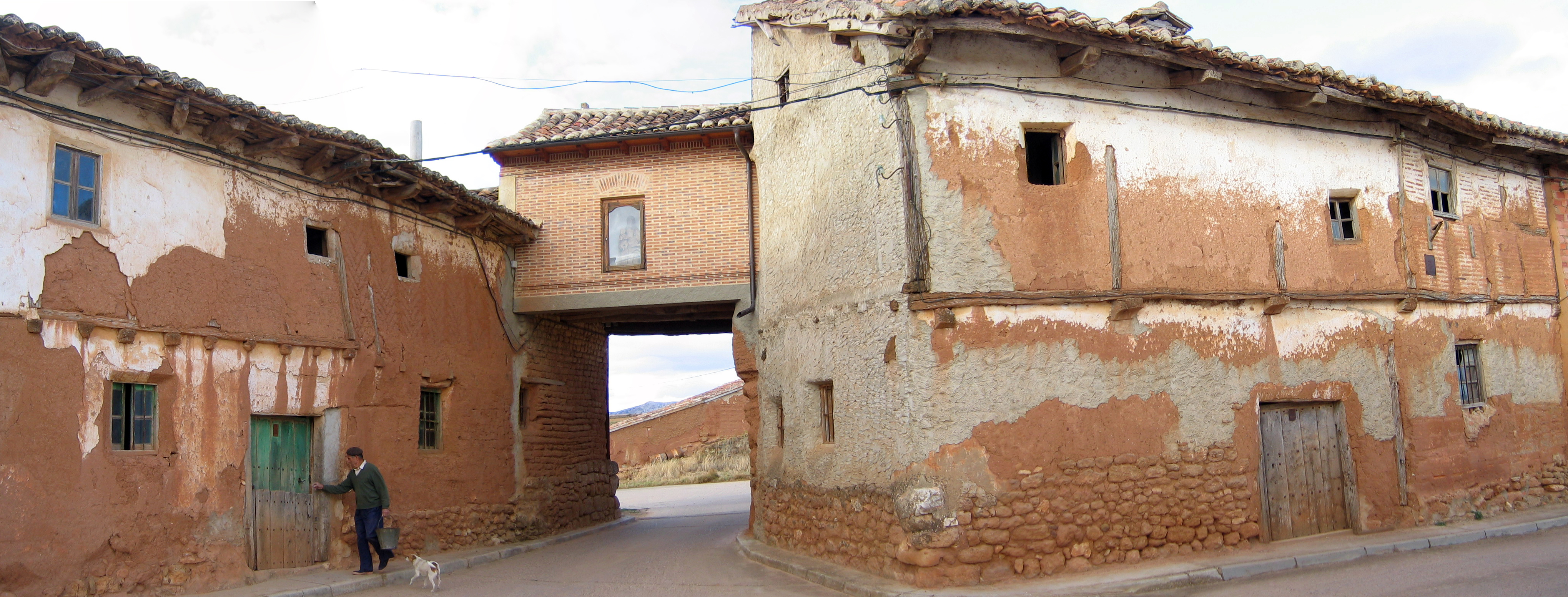 Interior view of door fence in Cañizar de Amaya (Burgos, Castile and León).